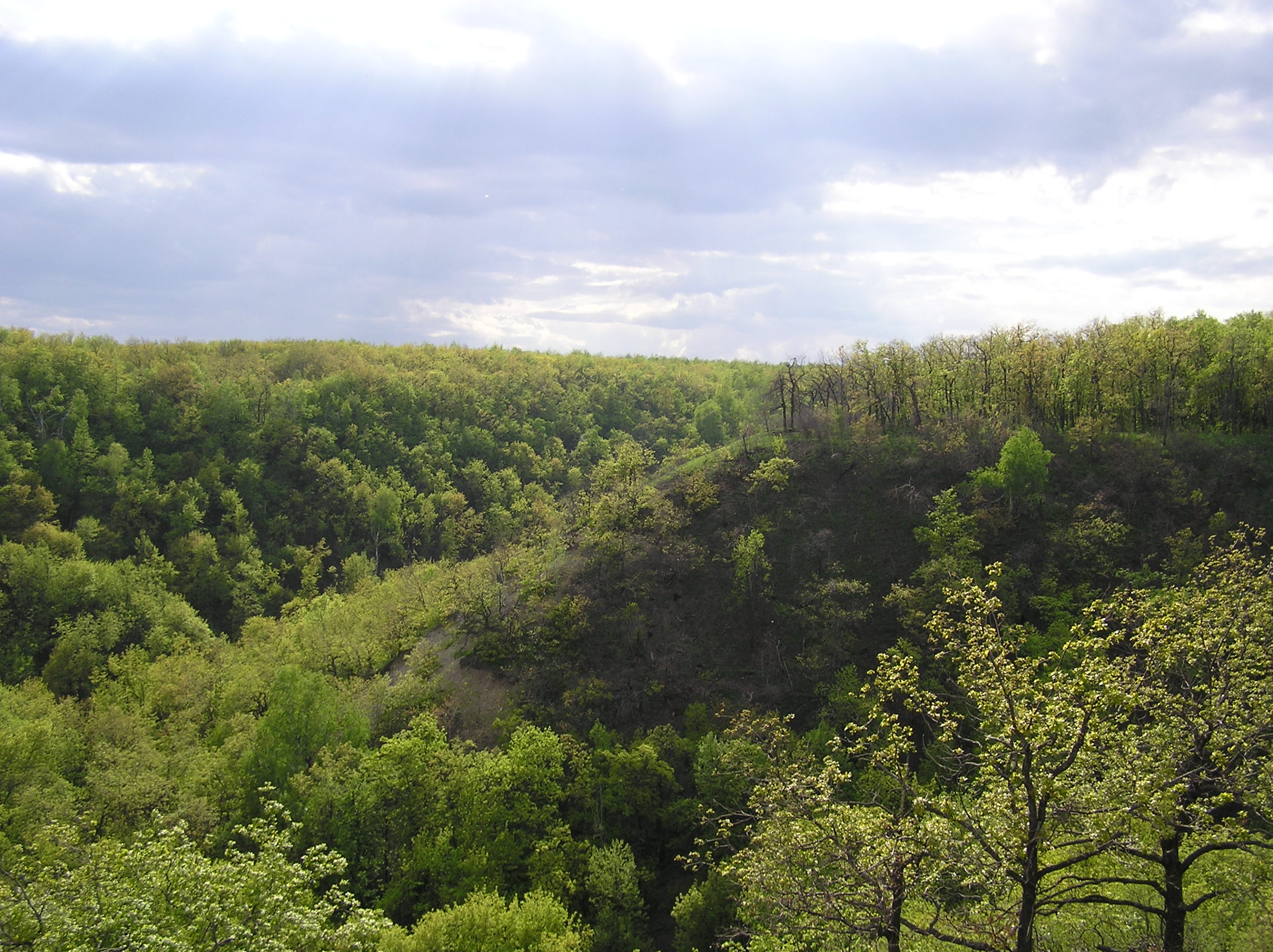 Rough terrain in urban forest "Kumysnaya Polyana" in the city of Saratov, Russia. Absolute elevation: 310 m.